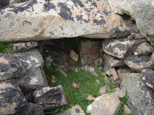 Chambered Cairn entrance, Vementry Isle Apparently the body of the deceased was laid OUTSIDE the chamber, for the eagles to consume the flesh, and the bones were then placed inside the chamber. The original eco-burial.